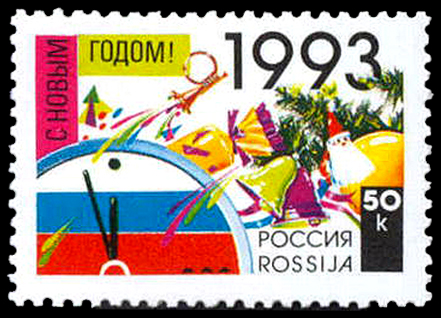 Stamp of Russia, New year, 1992, 50 k.